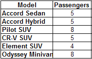 Part of a series of images to illustrate an article on the Analytic Hierarchy Process